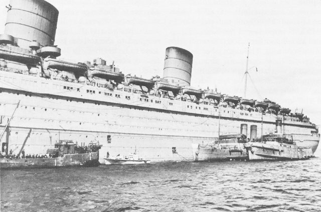 Tenders alongside the RMS Queen Elizabeth at Gourock, Scotland.